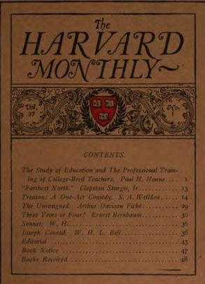 Typical cover-art of The Harvard Monthly, a literary magazine founded in 1885 which ceased publication in the early twentieth century.